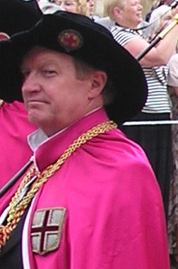 Officers of the Most Noble Order of the Garter, in procession to St George's Chapel, Windsor Castle for the annual service of the Order of the Garter. Gentleman Usher of the Black Rod, Michael Willcocks